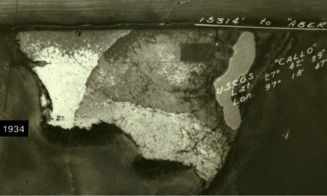 Ward Island Texas in 1934